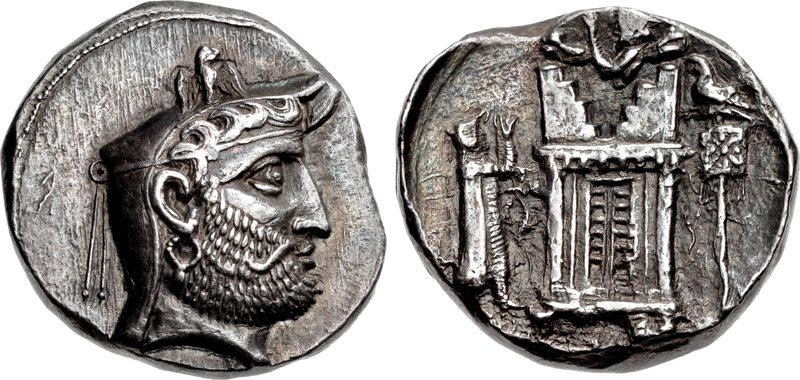 Coin of Vadfradad (Autophradates) II of Persis, Istakhr mint.